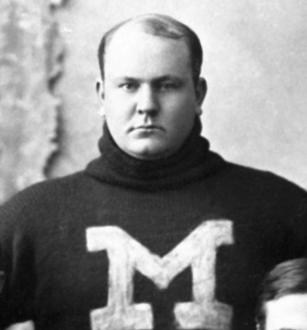 Edwin Denby cropped from 1895 University of Michigan football team